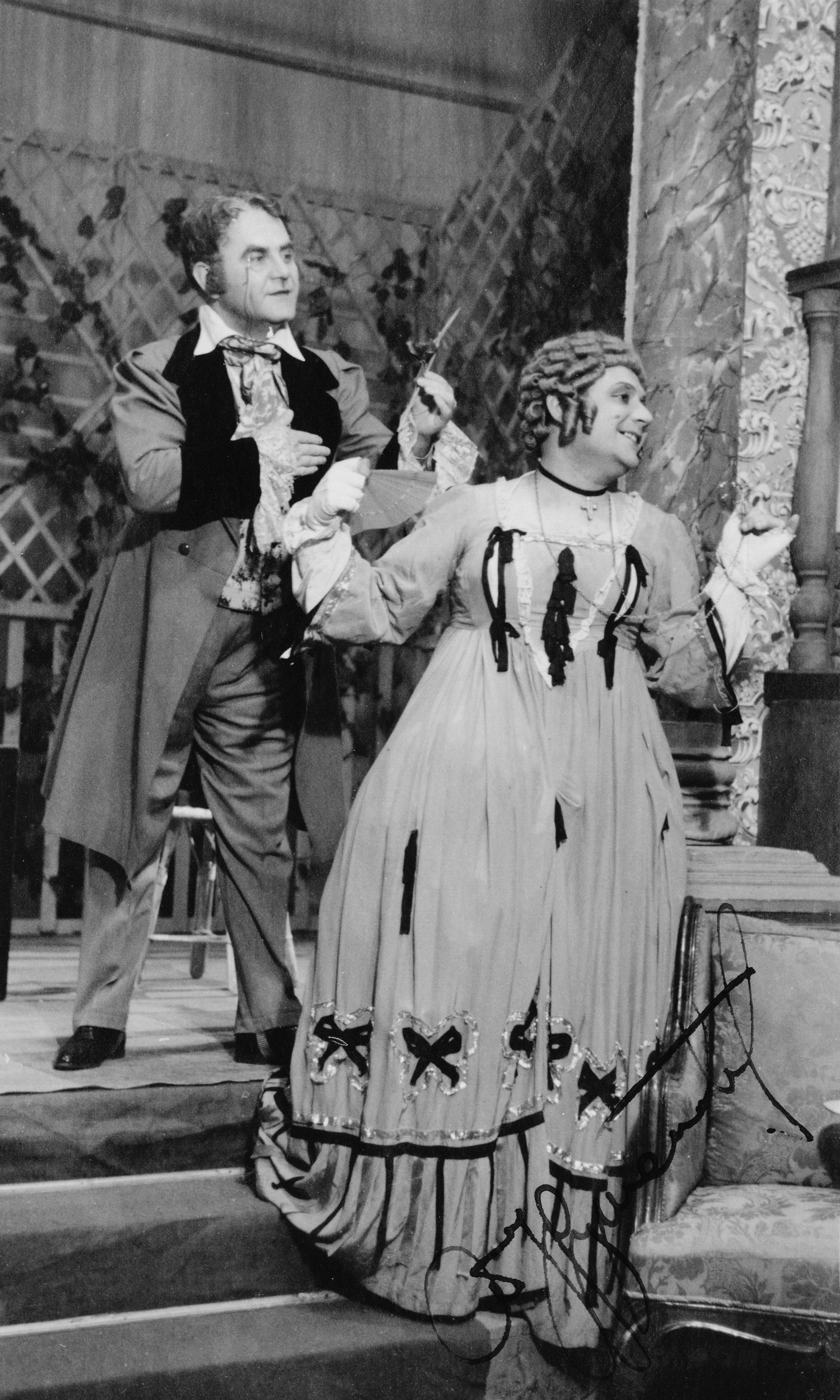 Milan Ajvaz as Sir Francis Chesney and Stanoje Dušanović as Lord Fancourt Babberley in act "Charley's Aunt", National Theatre of Dnube Banat, Novi Sad,1939 Srpski (latinica): Milan Ajvaz kao Ser Frensis Česni i Stanoje Dušanović kao Lord Fokurl Baberli u komadu "Karlova tetka", Narodno pozorište Dunavske Banovine, Novi Sad, 1939 Српски (ћирилица): Милан Ајваз као Сер Френсис Чесни и Станоје Душановић као Лорд Фокурл Баберли у комаду "Карлова тетка", Народно позориште Дунавске бановине, Нови Сад, 1939.